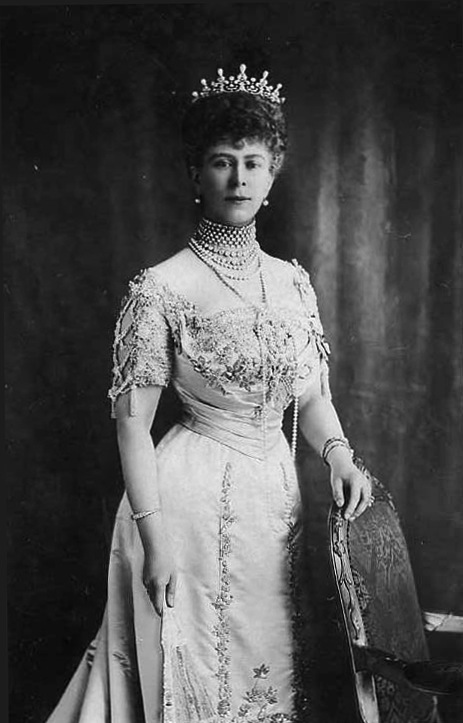 Mary of Teck, queen of the United Kingdom